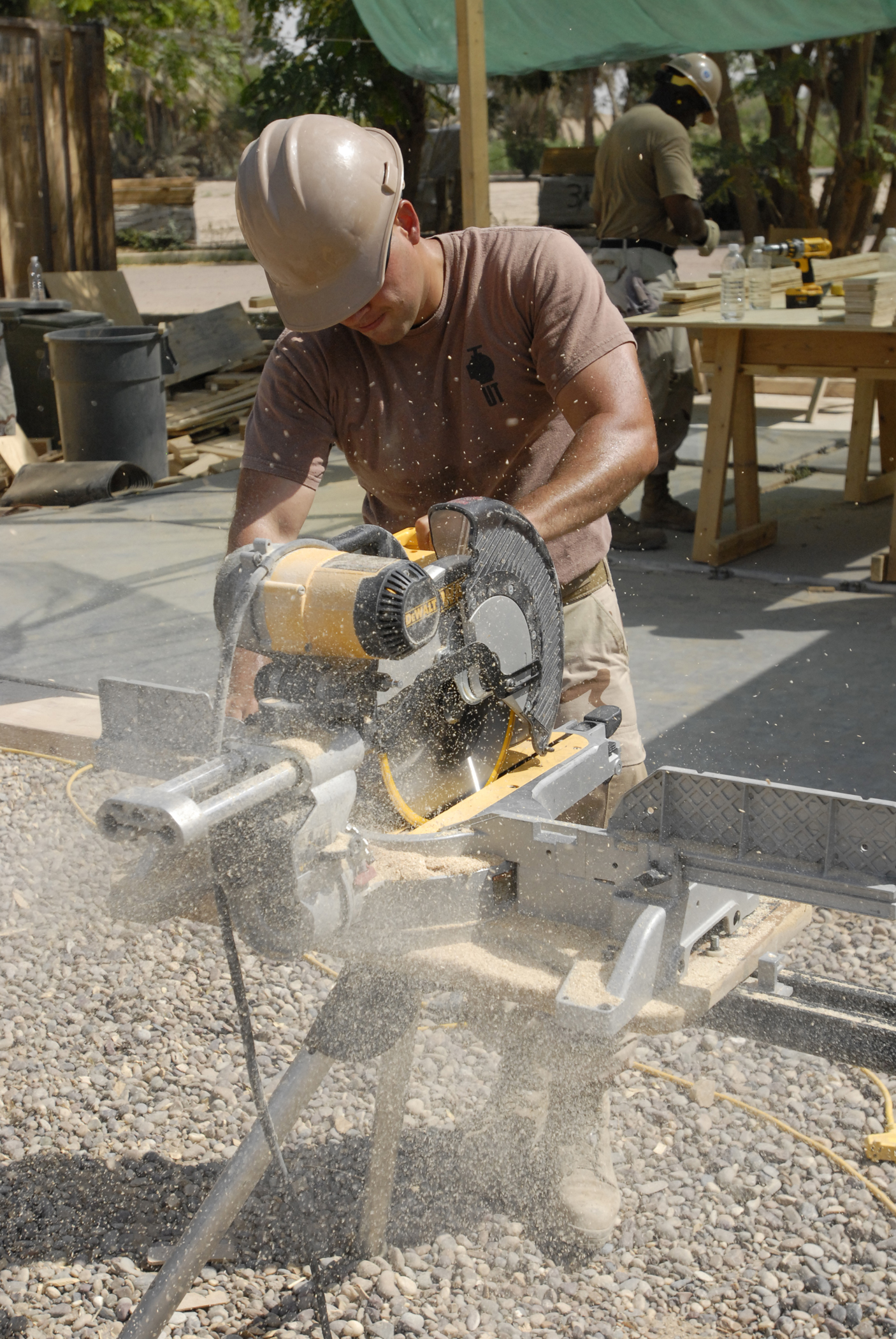 BAGHDAD, Iraq (May 27, 2010) Utilitiesman 2nd Class Jorge Batista, from Bronx, N.Y., assigned to the Naval Mobile Construction Battalion (NMCB) 21, operates a saw at a construction site for a Special Operations Task Force Central structure in Baghdad. (U.S. Army photo by Spc. Victor J. Ayala/Released